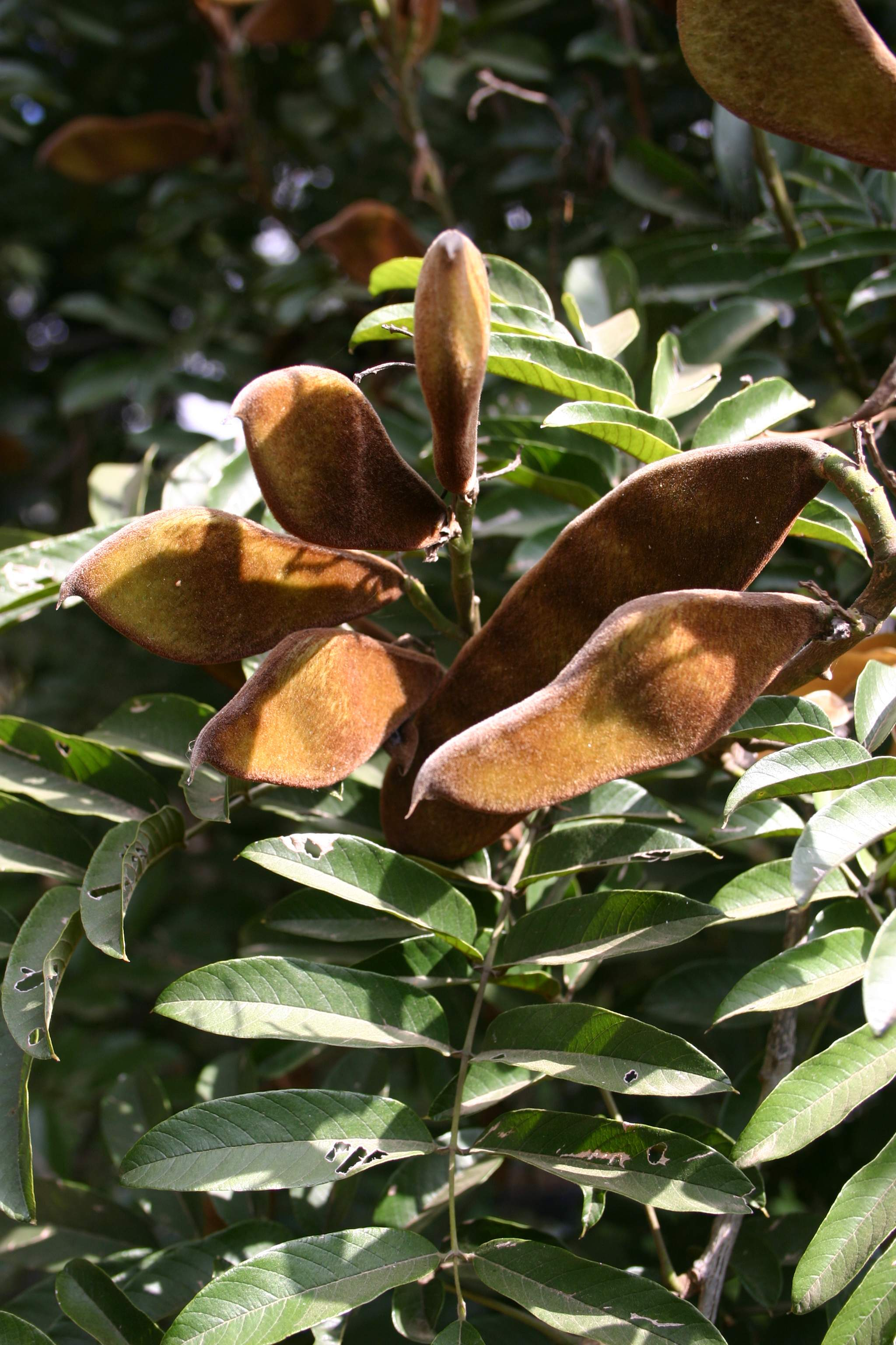 Fruits & foliage of Millettia grandis - Random Harvest Nursery, Honeydew, Gauteng